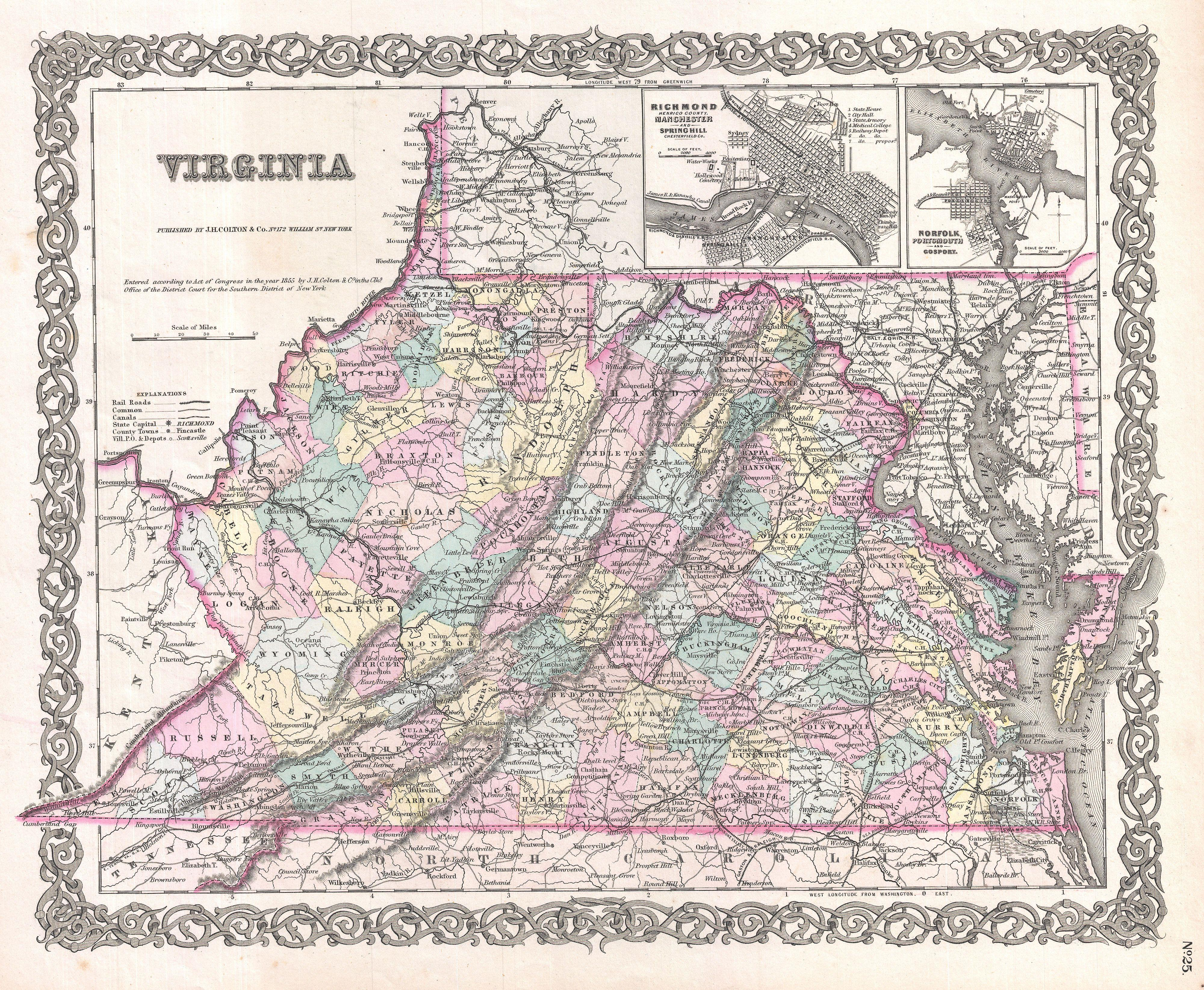 A beautiful 1855 first edition example of Colton's map of Virginia. Covers the entire state as well most of adjacent Maryland and parts of North Carolina, Kentucky and Tennessee. Predates split with West Virginia by seven years. Map is hand colored in pink, green, yellow and blue pastels to identify counties. Identifies towns, cities, railroads, roads and some topographical features. Features maps of Richmond (with Manchester and Spring Hill) and Norfolk (with Portsmouth and Gosport). Names the Cumberland Gap, Chesapeake Bay, Alleghany and Shenandoah Mountains, and the Dismal Swamp. Surrounded by Colton's typical spiral motif border. Dated and copyrighted to J. H. Colton, 1855. Published from Colton's 172 William Street Office in New York City. Issued as page no. 25 in volume 1 of the first edition of George Washington Colton's 1855 Atlas of the World.